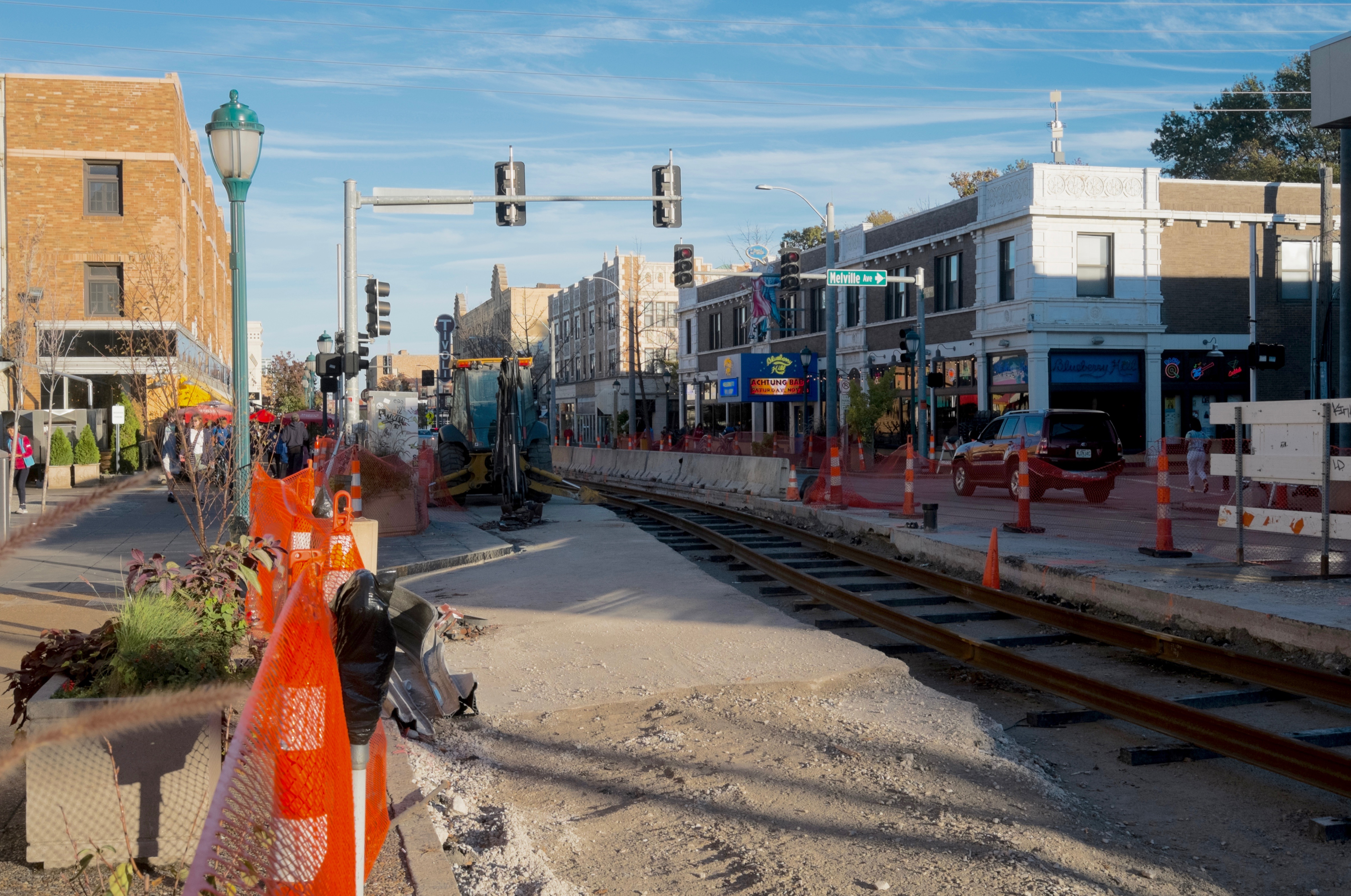 Loop Trolley construction, on Delmar Blvd. at Melville Avenue in St. Louis, in November 2015.